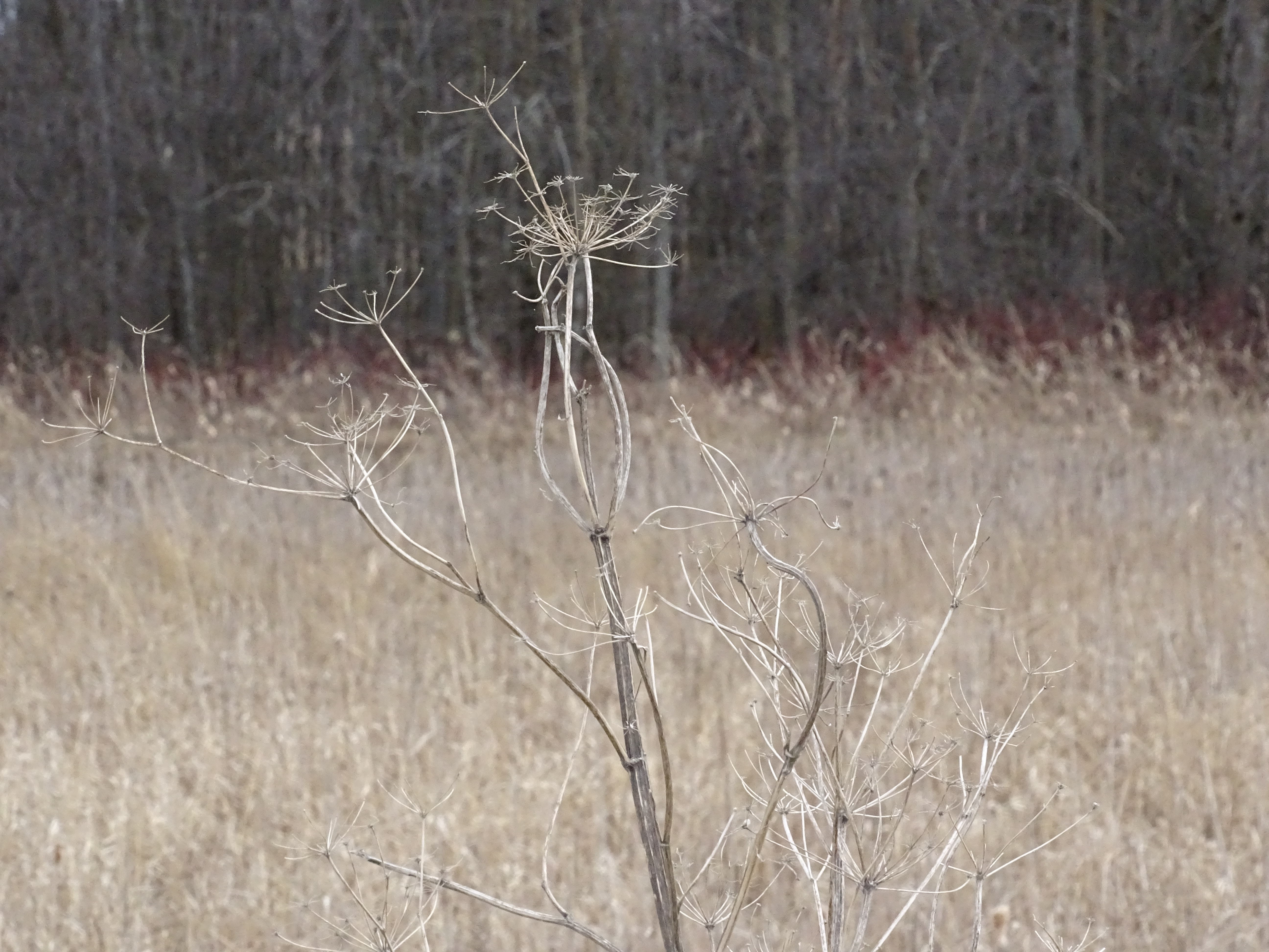 Previous-year foliage of Pastinaca sativa in Ottawa, Ontario